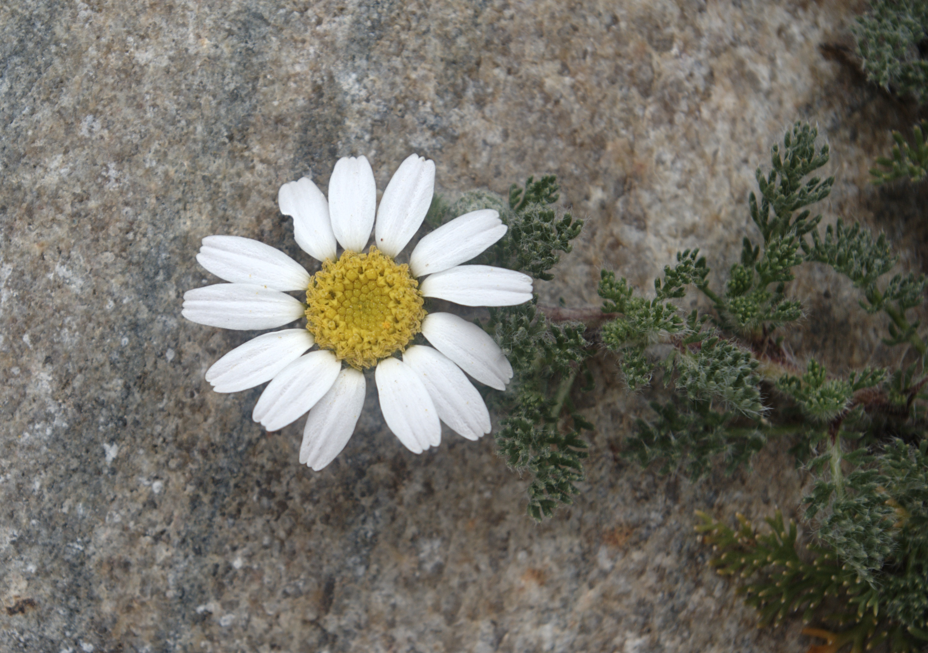 Detail of Anacyclus pyrethrum var. depressus or Anacyclus depressus, mat daisy or Mount Atlas daisy, showing flower open in the afternoon (during a cloudy moment). My garden, Española, New Mexico.